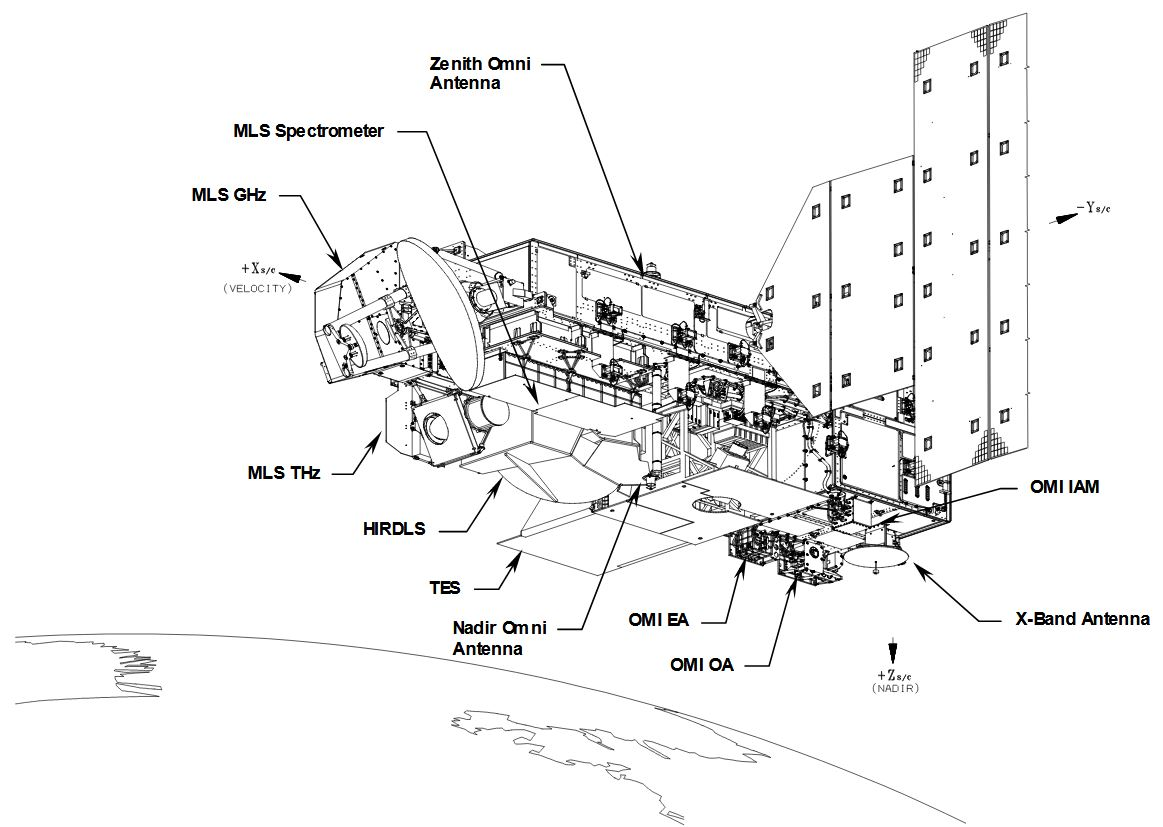 Aura spacecraft configuration